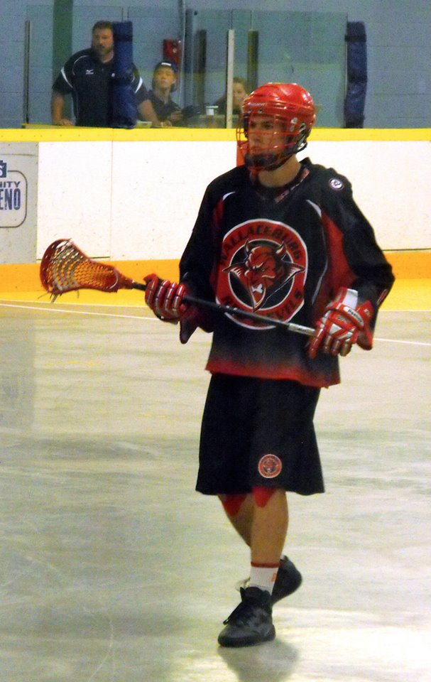 These images of Ontario Junior B Lacrosse Action action during the 2014 season are taken by Devan Mighton.